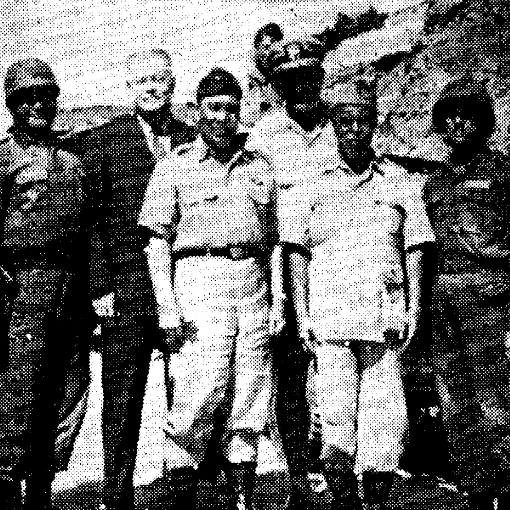 (Second from right) Minister Yu Da-wei, Admiral Doyle, General Wang Shu-ming and Ambassador Rankin, made an inspection tour of defense affairs of Matsu, and had photos with warriors on the front line.